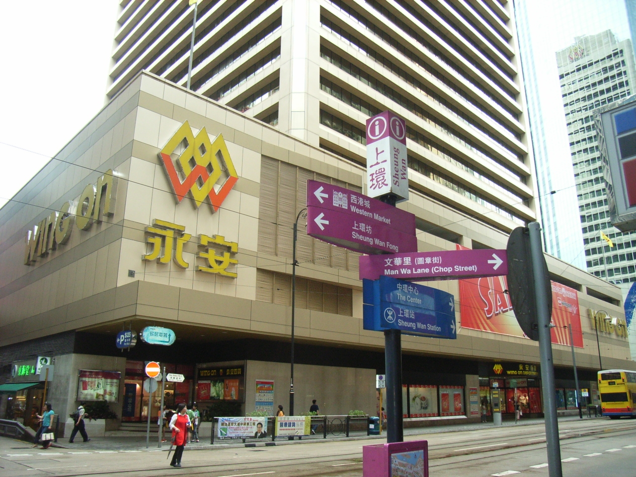 Sheung Wan 上環 User:Mad2006 is the photo author.